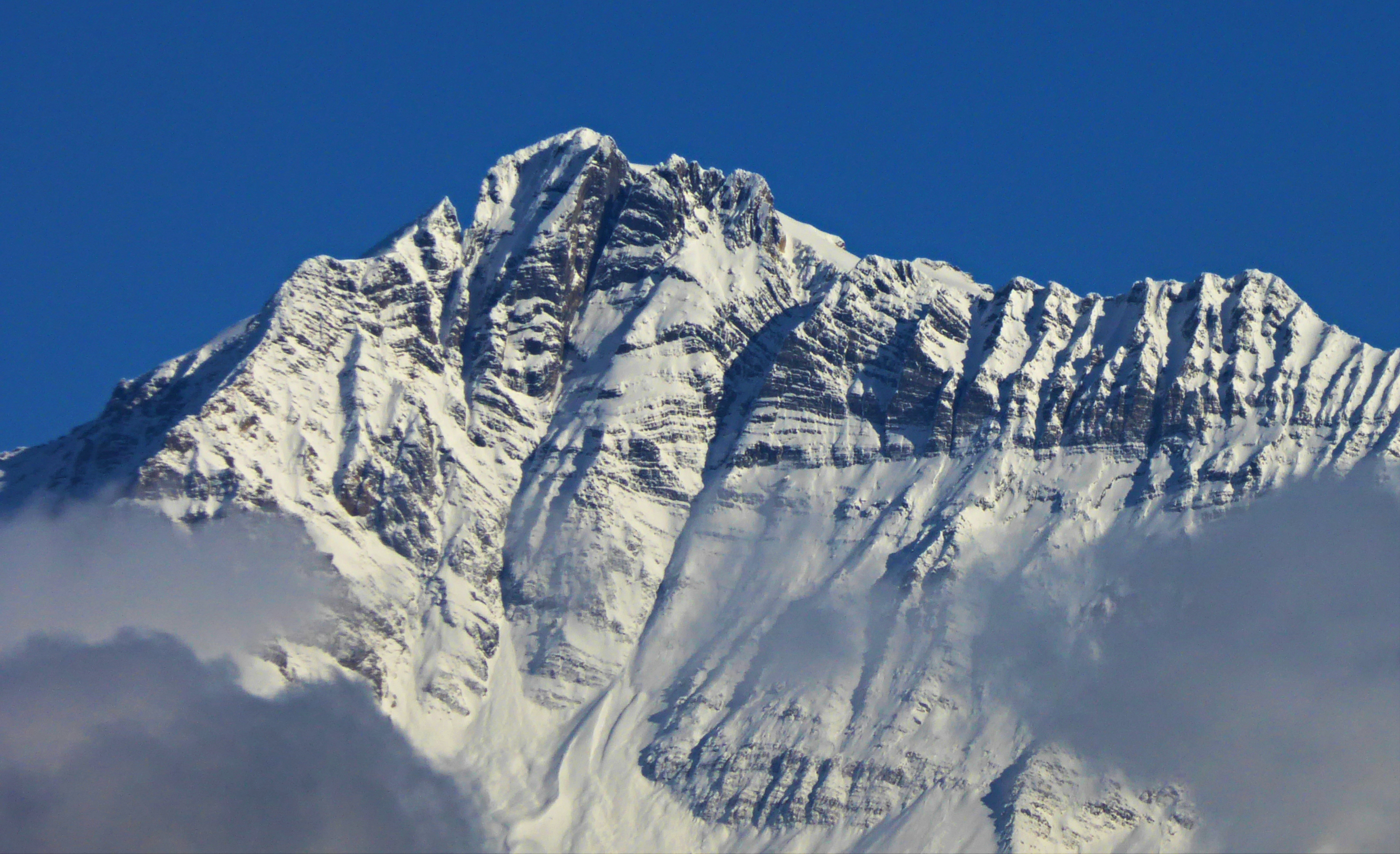 Mt Laussedat